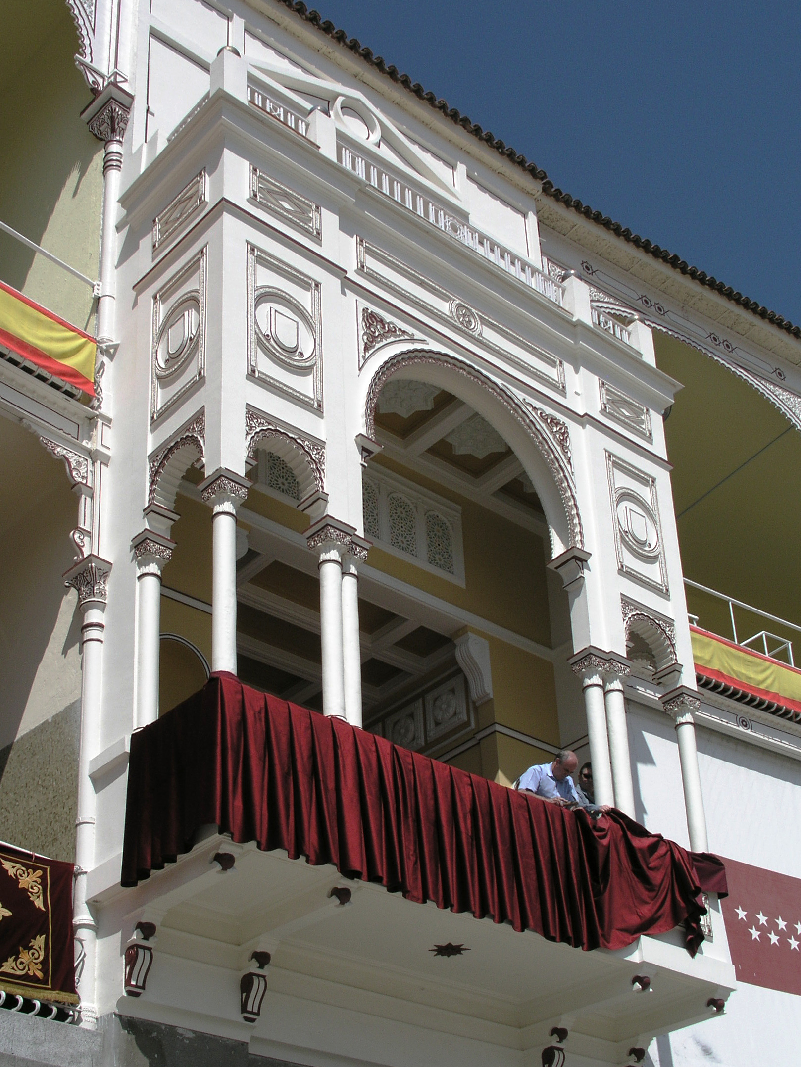 Palco Real, Las Ventas, Madrid, Spain. Making up the Kings lodge.